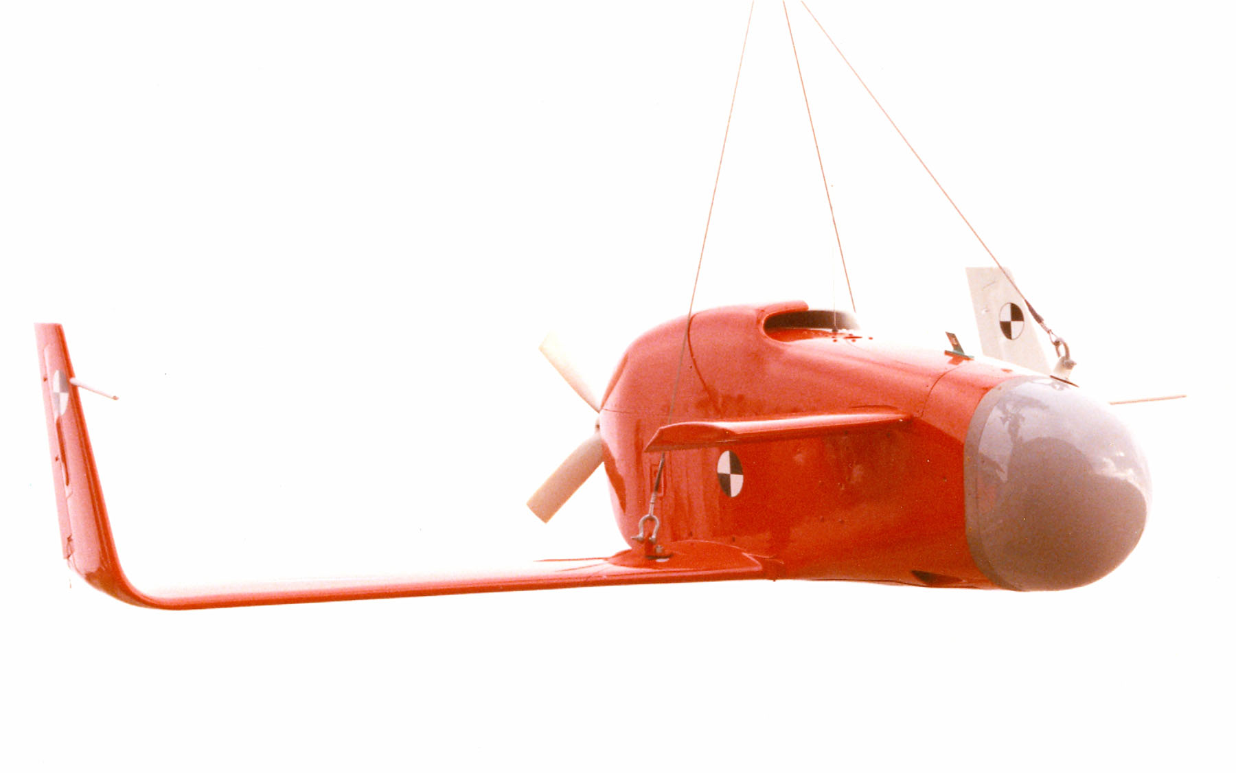 DAYTON, Ohio -- Boeing YCGM-121B Seek Spinner at the National Museum of the United States Air Force. (U.S. Air Force photo)